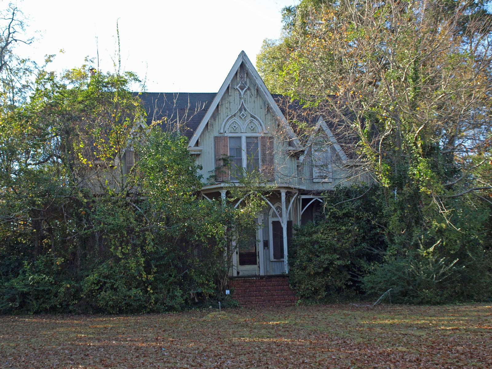 The Buell-Stallings-Stewart House in Greenville, Alabama, listed on the National Register of Historic Places